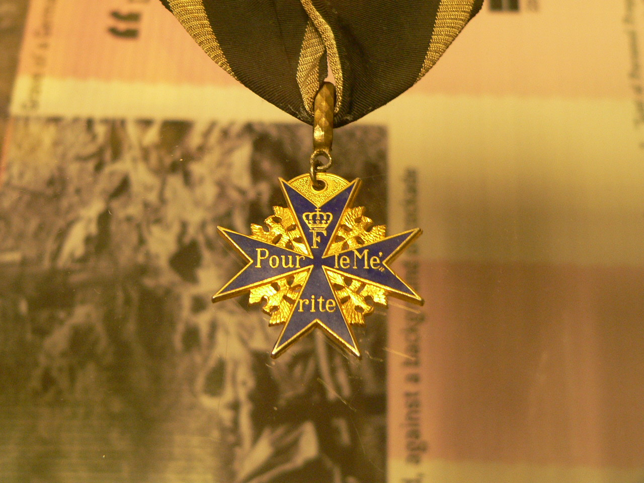 This was one of the highest medals you could earn in the service of Germany during WWI. Not awarded for a single brave act, but for continous gallantry and bravery. It resides at the Liberty Memorial and Museum in Kansas City, Mo.